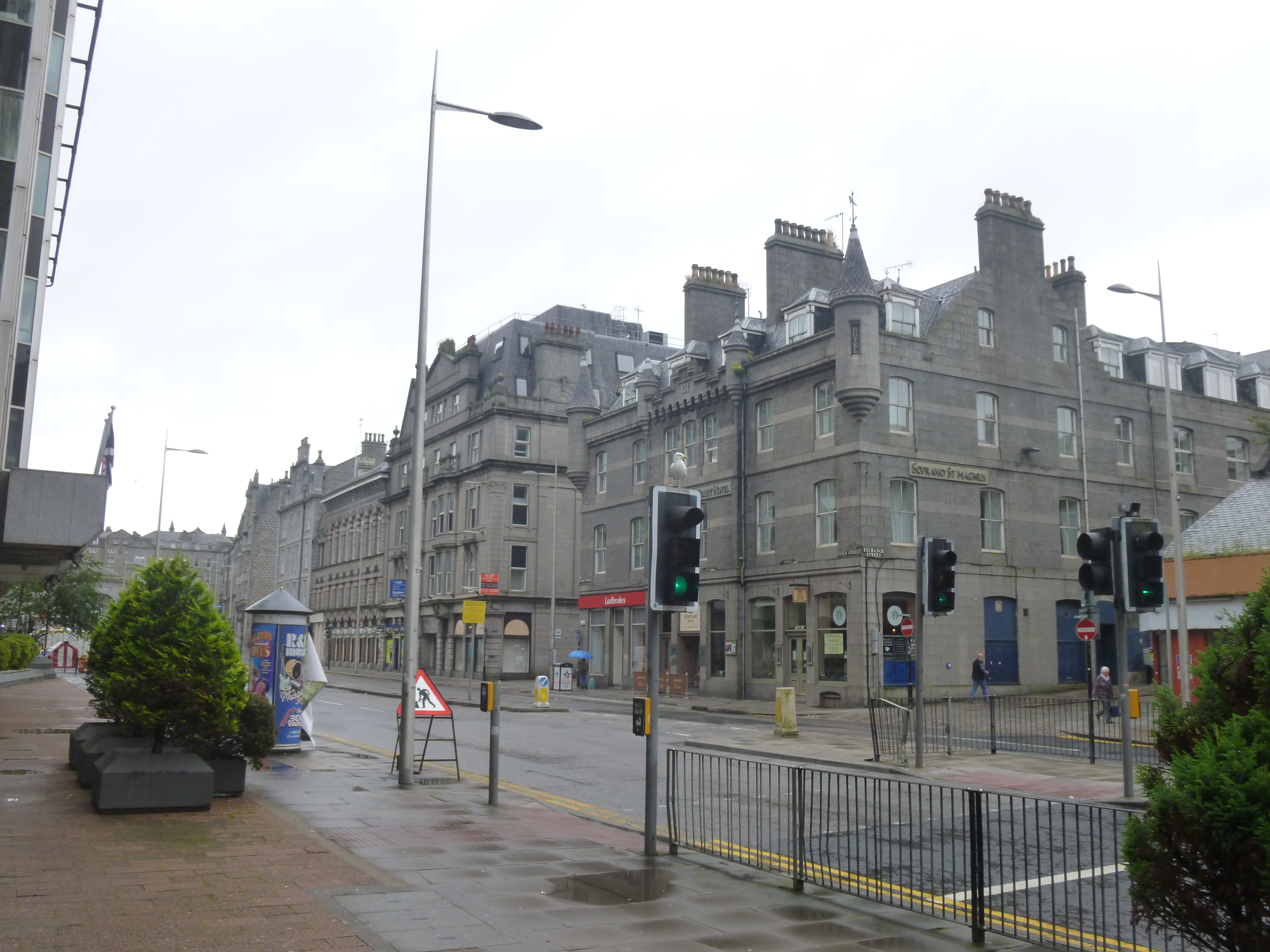 View of one side of Guild Street, Aberdeen in July 2015.